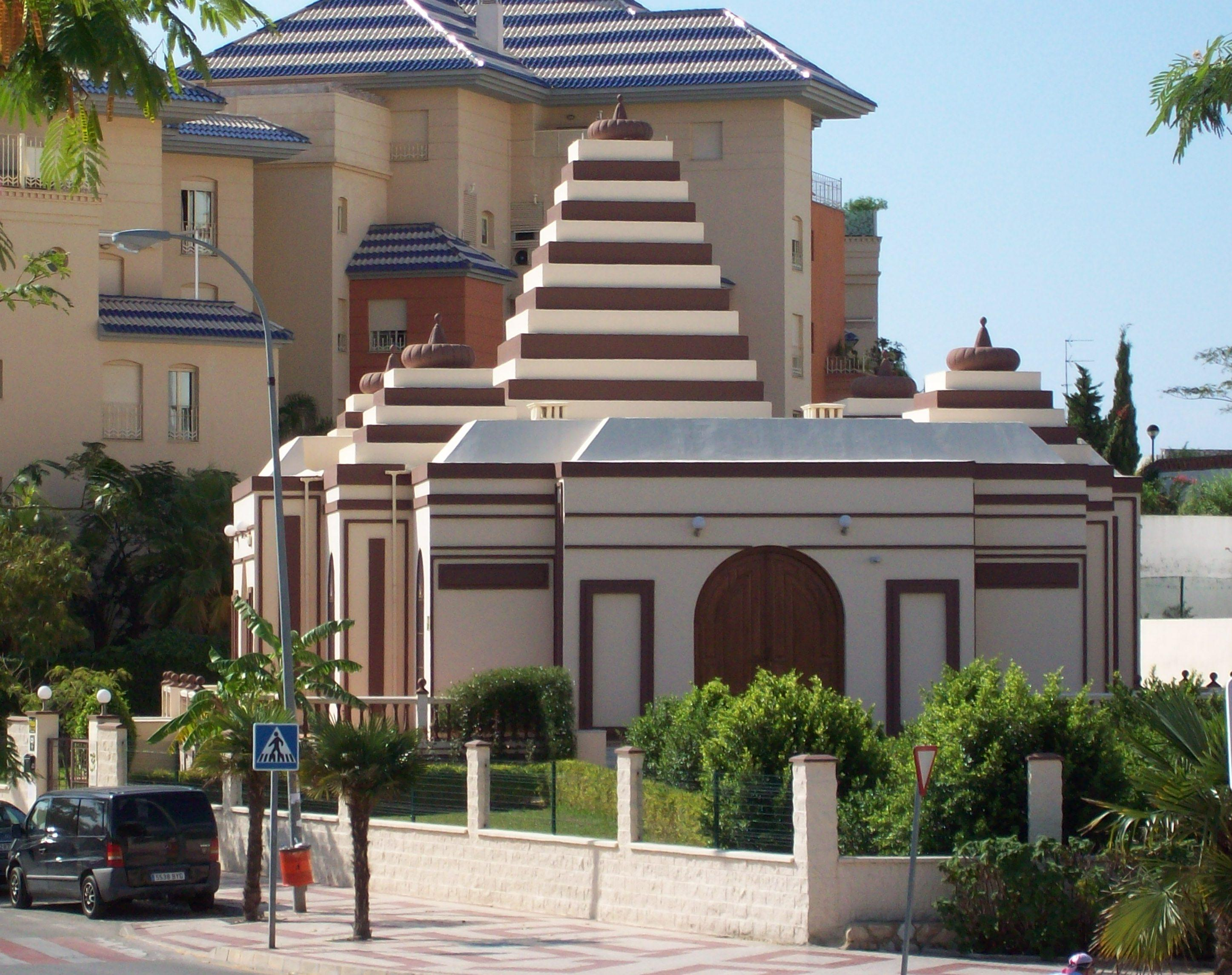 Hindu temple in Arroyo de la Miel, Benalmádena, Málaga, Spain